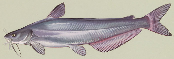 USFWS Artist's rendering of a Blue catfish (Ictalurus furcatus)